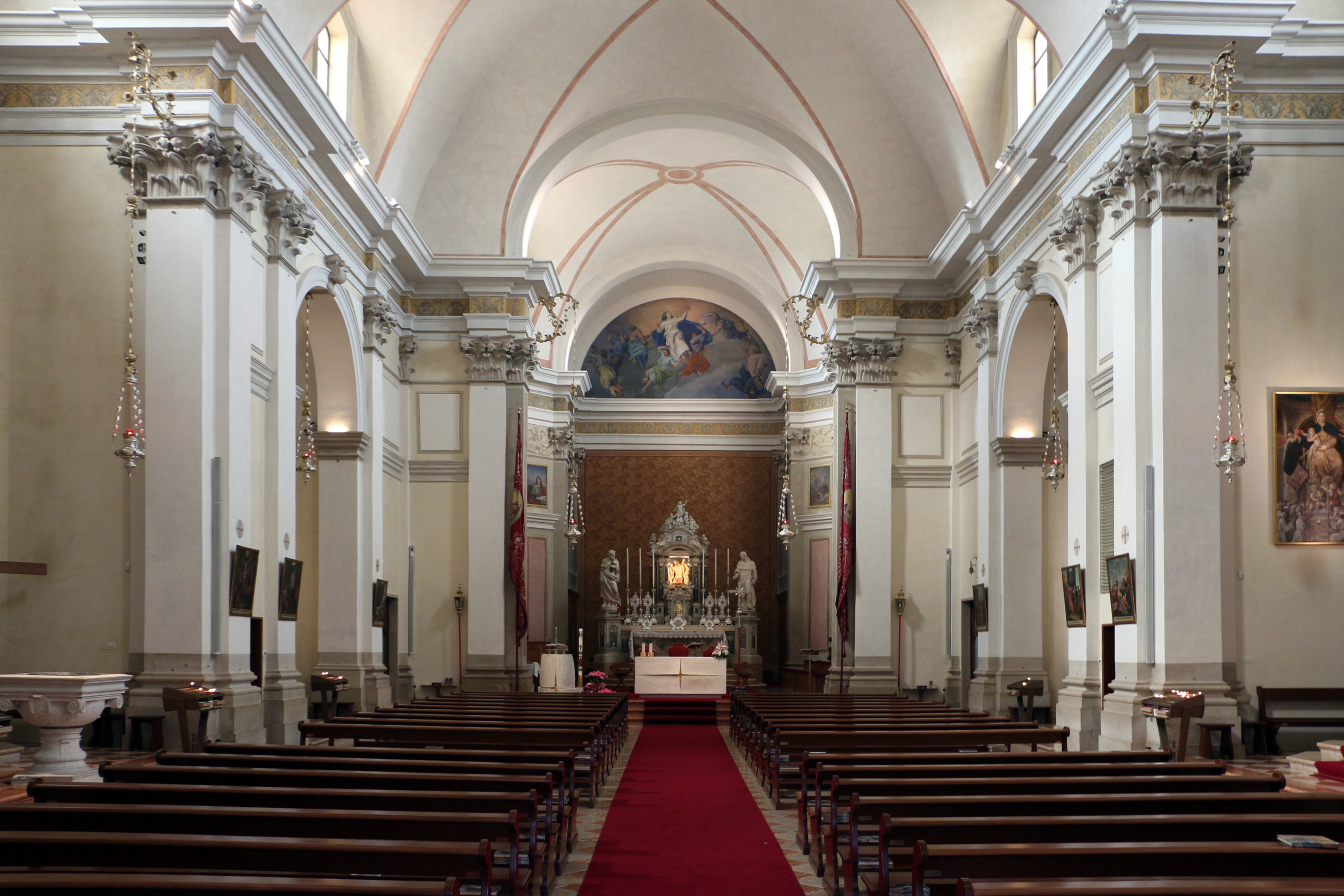 Codroipo